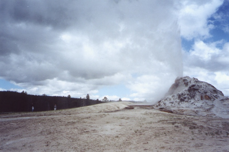 White Dome Geyser at Yellowstone during one of its infrequent eruptions. Photo by Gilgamesh.